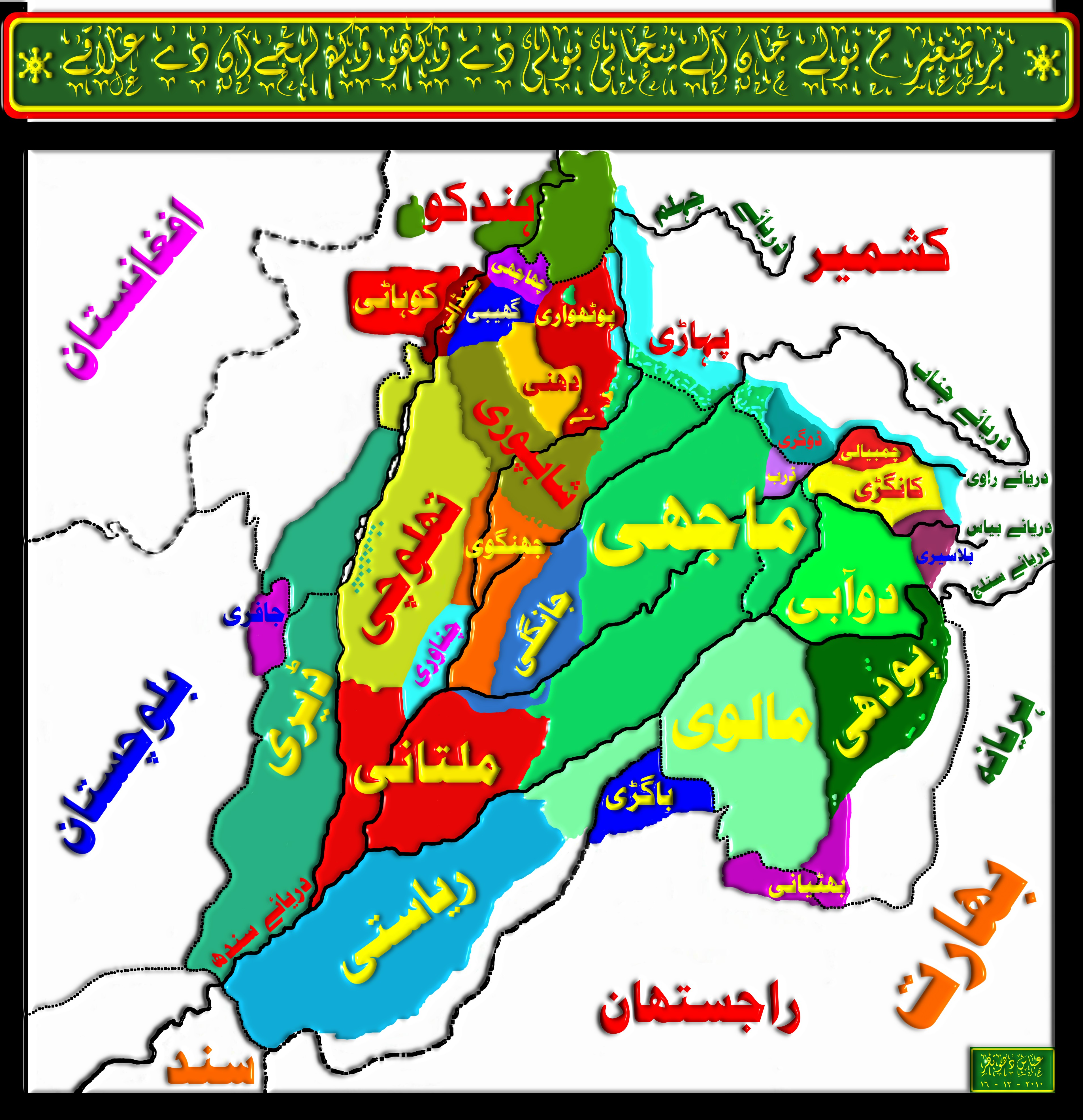 A map of Punjabi language dialects in Punjabi Shahmukhi.